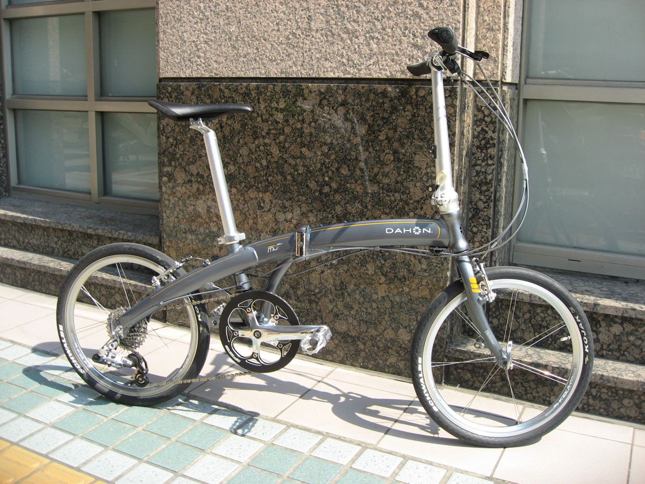 2009 Dahon Mμ SL folding bicycle